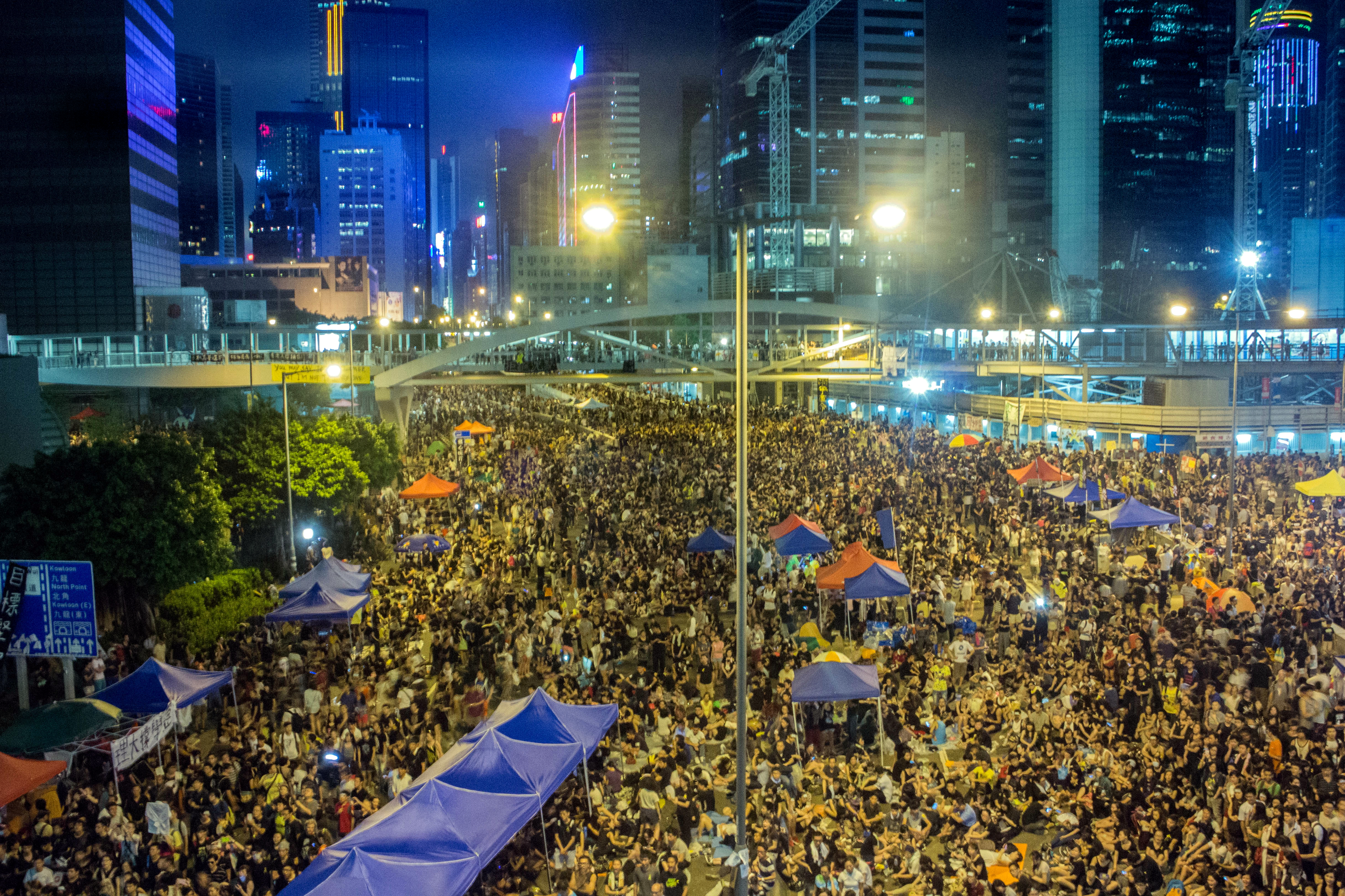 HK Occupy Central in Harcourt Eoad